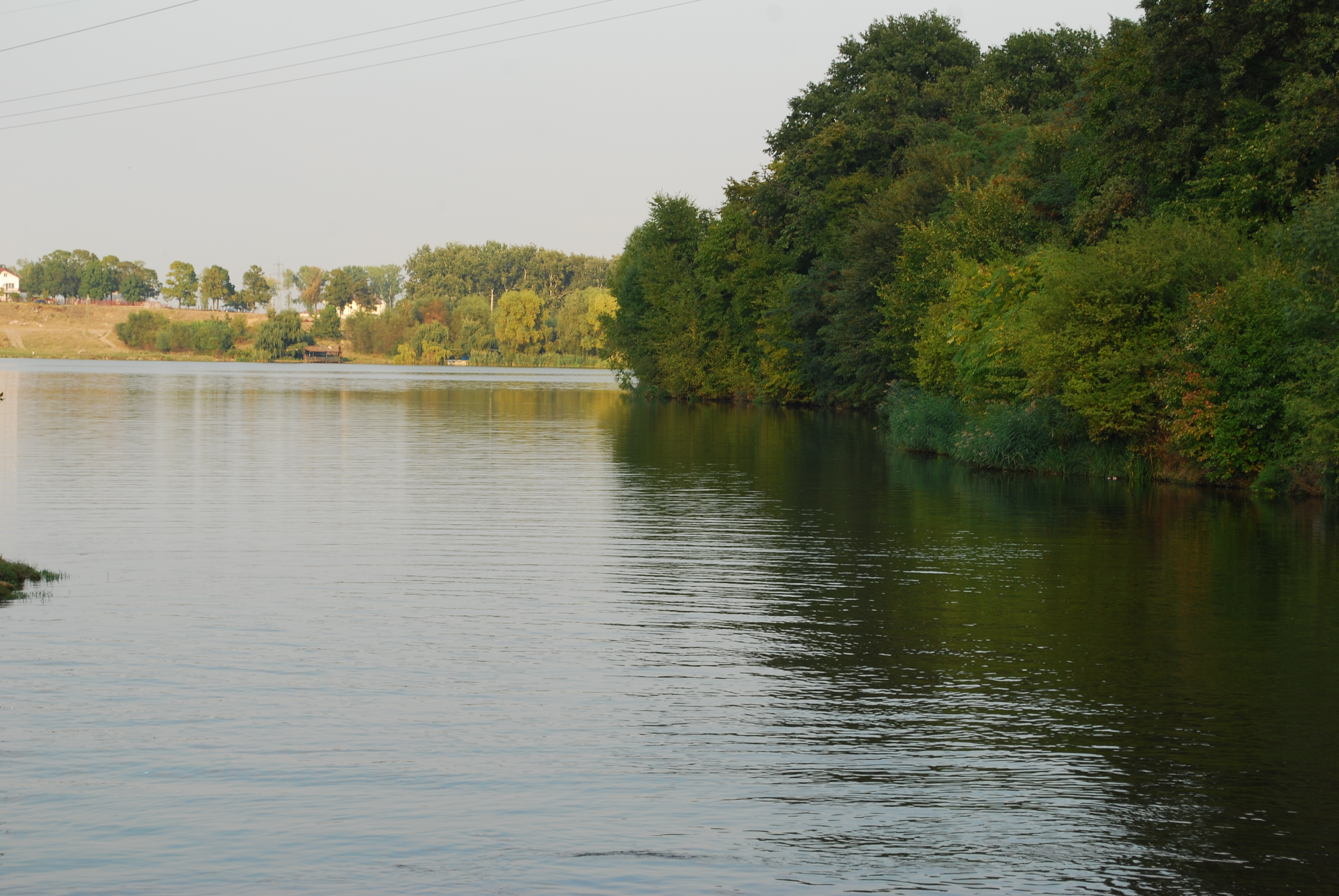 Lake Cernica on Colentina river, in Pantelimon, Ilfov County, RomaniaRomână: Lacul Cernica pe râul Colentina, în Pantelimon, judeţul Ilfov, România